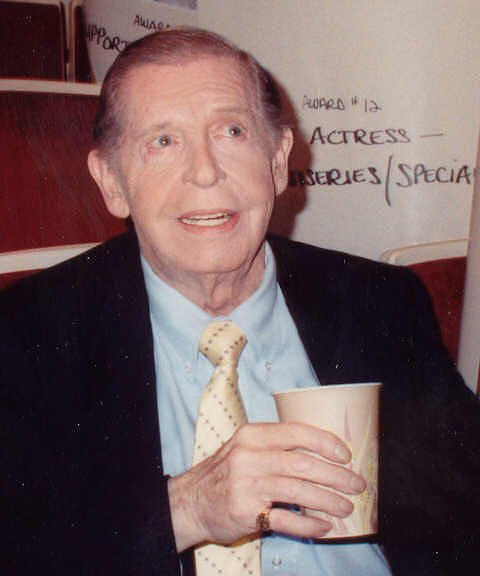 Cropped image of Milton Berle taken from photo taken at 41st Emmy Awards 9/17/89 - Milton Berle and me.